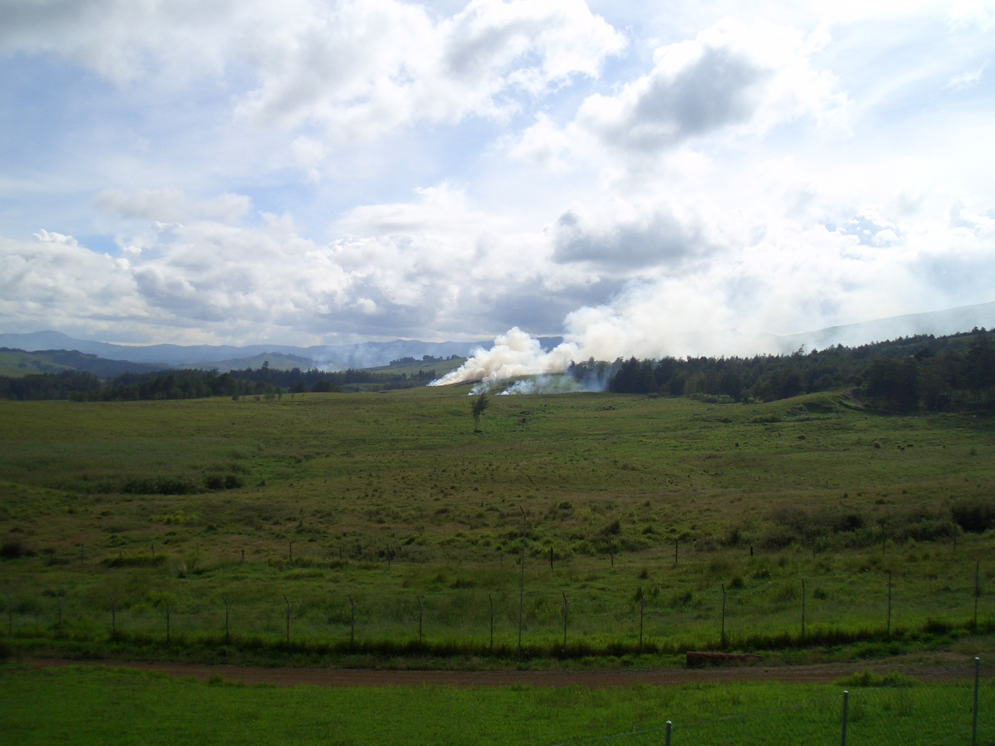 Taken by PeterMarkSmith in Dec 2006.